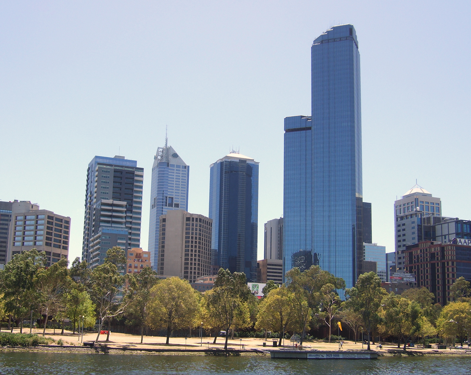 The Rialto Towers viewed from southbank in front of Crown Casino, Melbourne. By me.